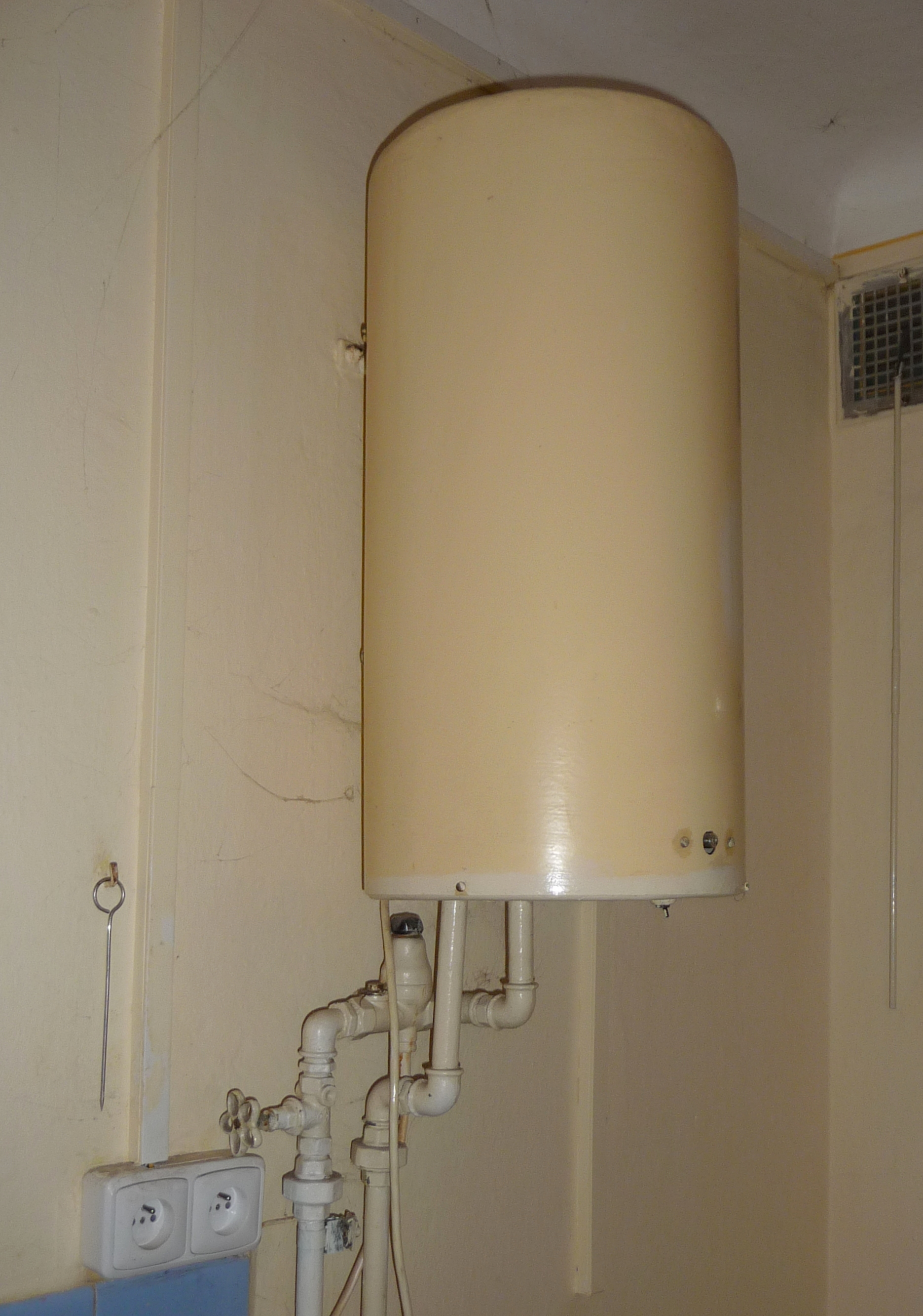 Boiler water heating for natural gas